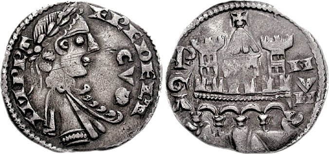 Italy, Bergamo. Comune. 11th-early 14th century. AR Grosso of 4 Denari (1.20 g). Struck in the name of Federico II, 1236-1250. +IMPRT FREDERI/CVS, laureate, draped, and cuirassed bust right PGA down left field, MVM down right field (P barred), church with towers; crescents.